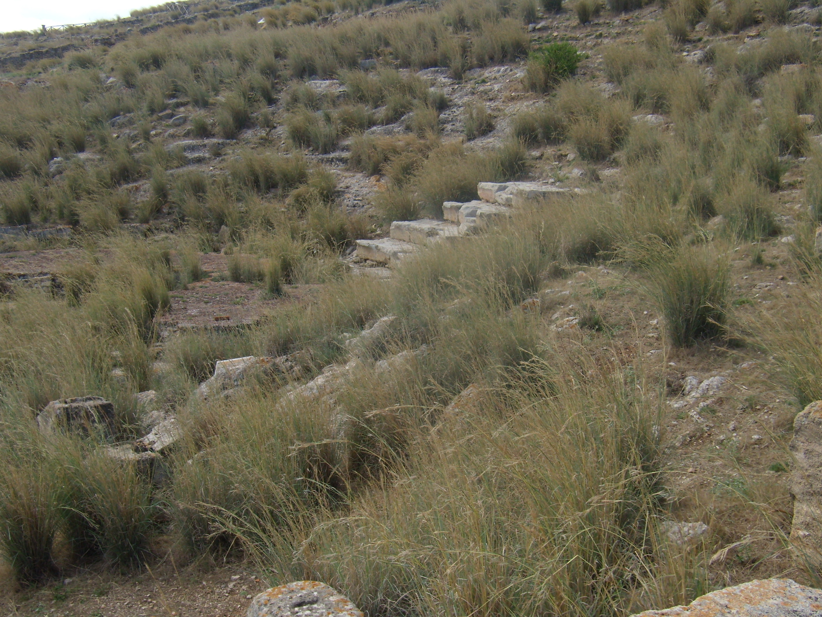 Remains of the ancient theatre at Solonto, Sicily